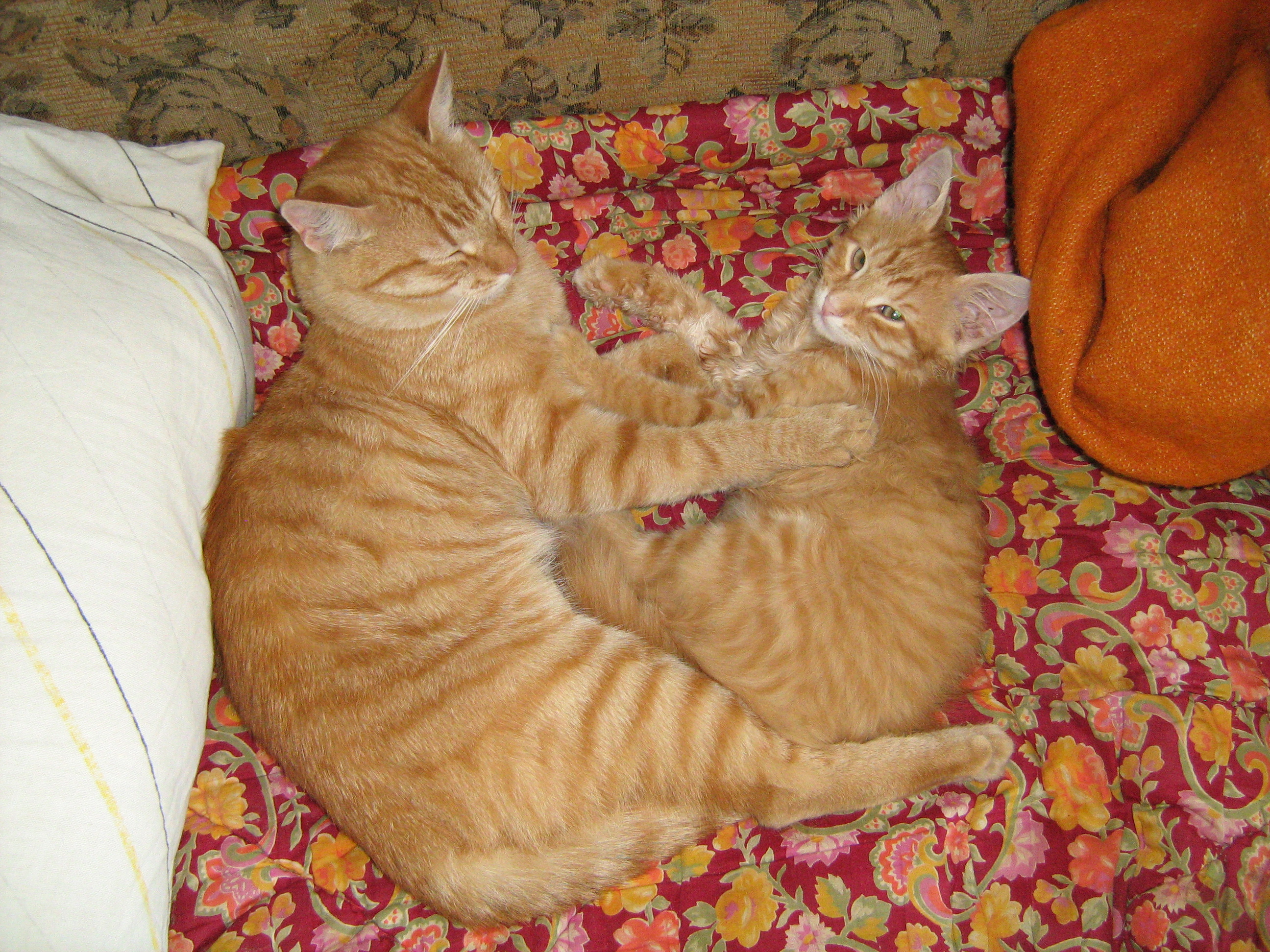 Two cats